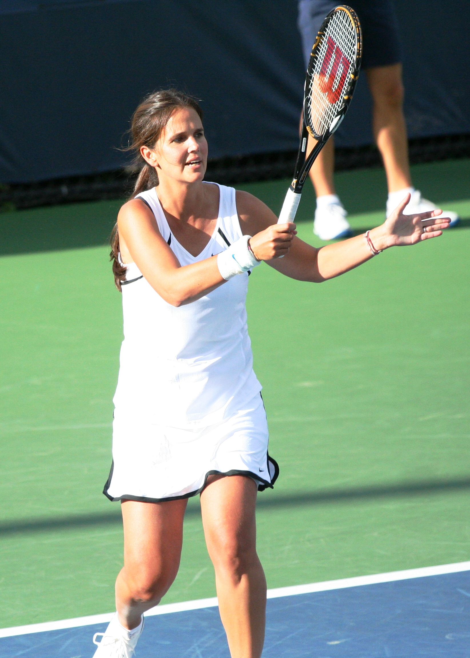 U.S. Open Champions Team Tennis Thursday, Sept. 9, 2010